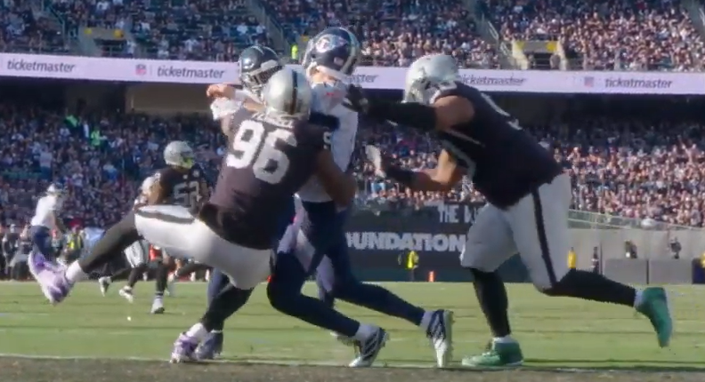 Clelin Ferrell 2019. Image from video Analyzing Three Big Touchdowns at Oakland | Beneath the Surface, ~ 01:06